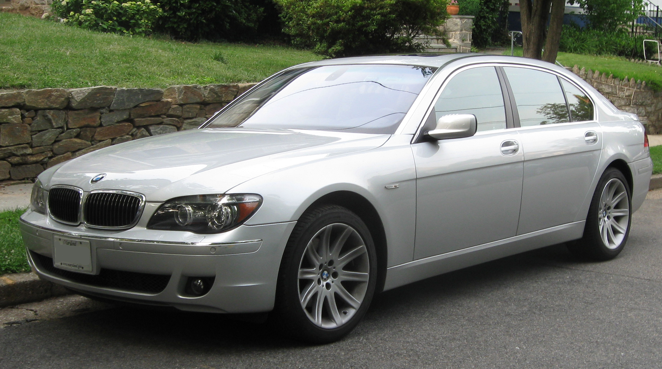 2006-2008 BMW 7-Series photographed in Washington, D.C., USA.